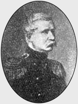 The portrain of Sergei Tichotski - the participant of the Crimean War (1853-1856).